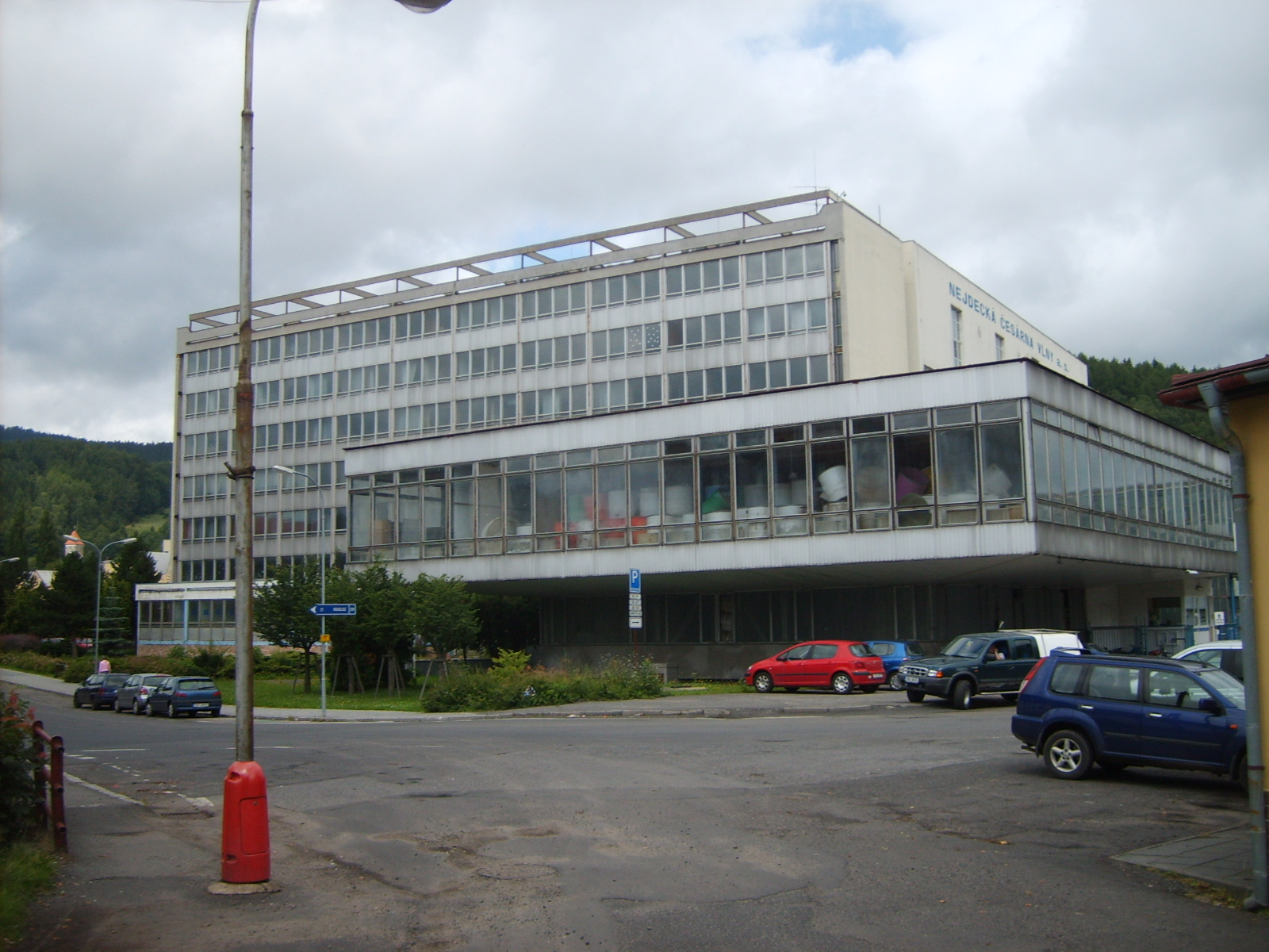 Textile factory Nejdek wool comber in Nejdek, Carlsbad county, CZ